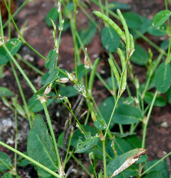 Alysicarpus bupleurifolius in Goa, India.